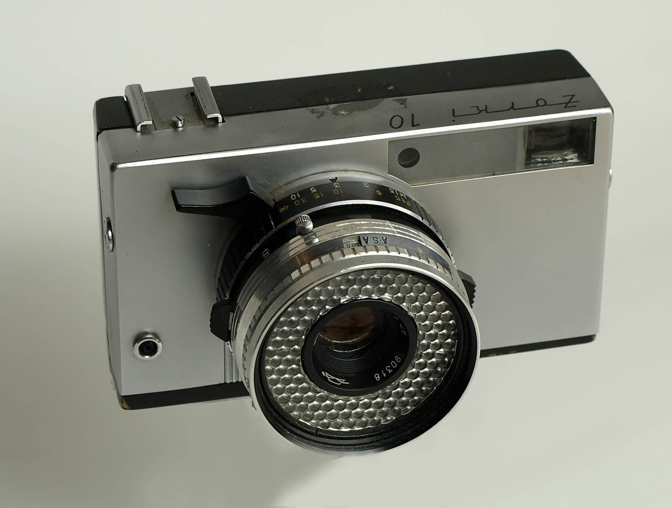 Zorki 10. 35mm camera.